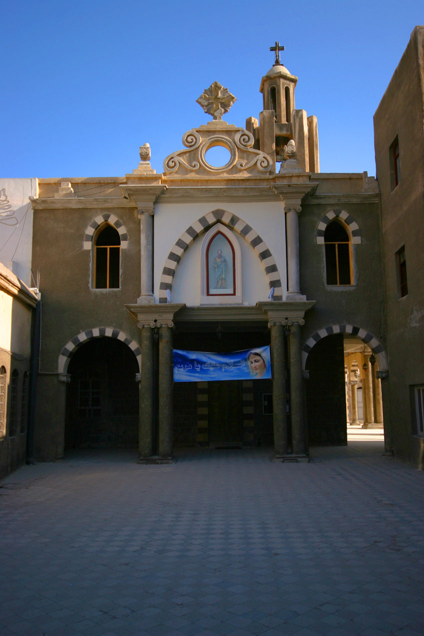 Christian church, Aleppo, Syria